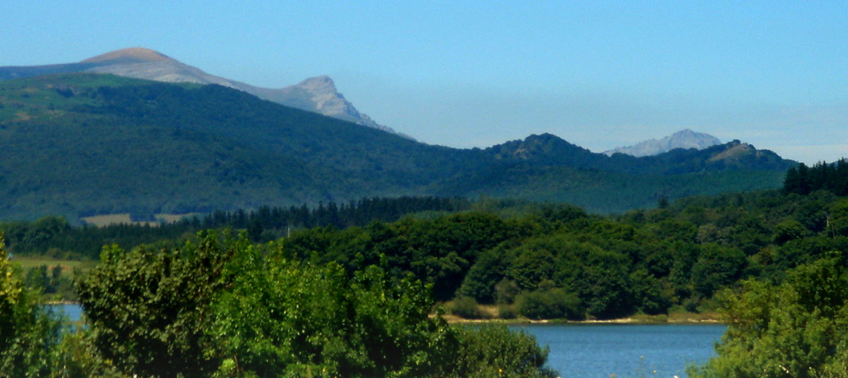 Gorbeia mountain range